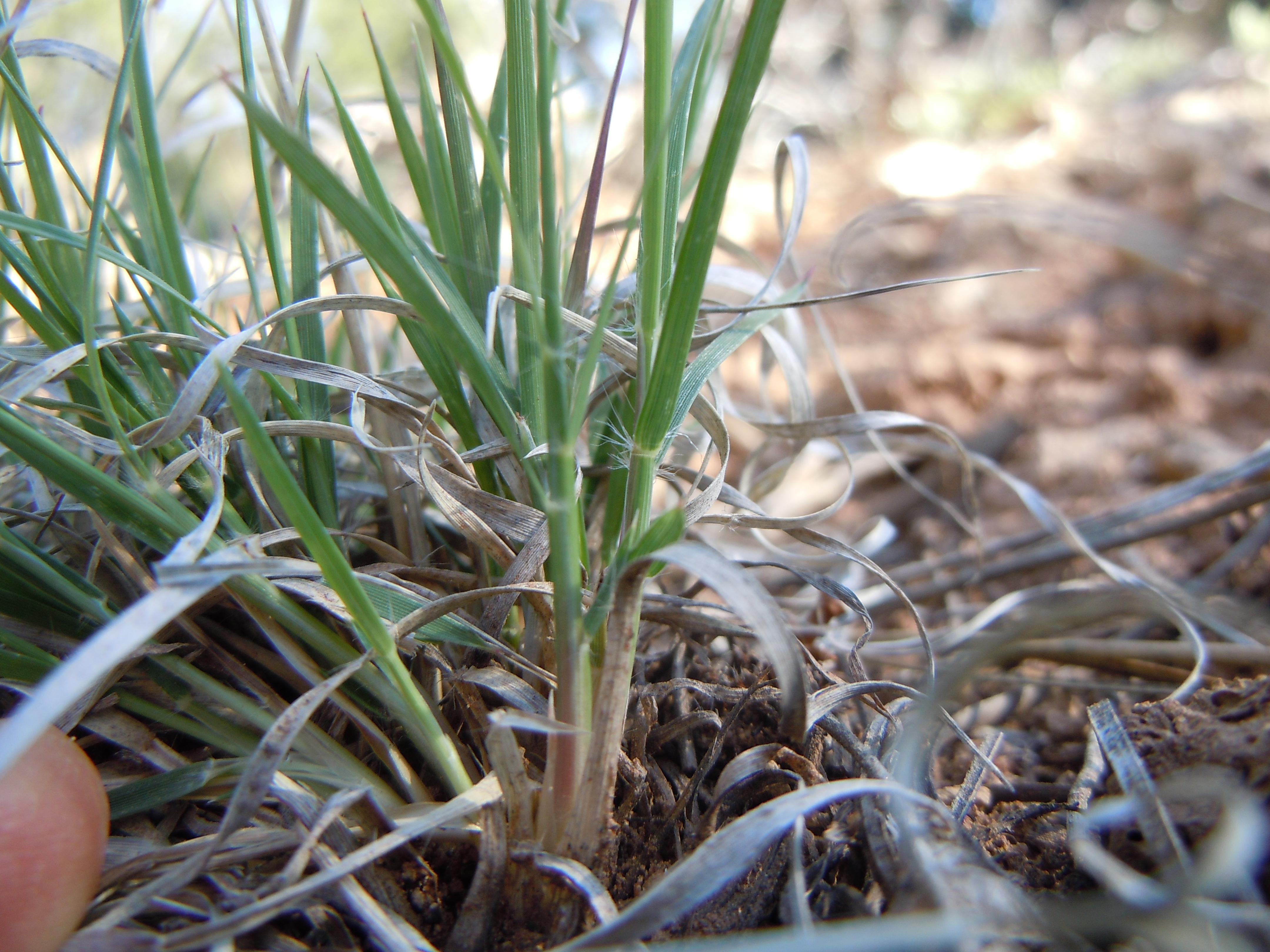 Bouteloua gracilis — Blue grama grass. The ligule and collar regions are distinctively long—hairy. An occasional grass in open dry understory and the sagebrush steppe in this plateau area of Grand Canyon National Park.